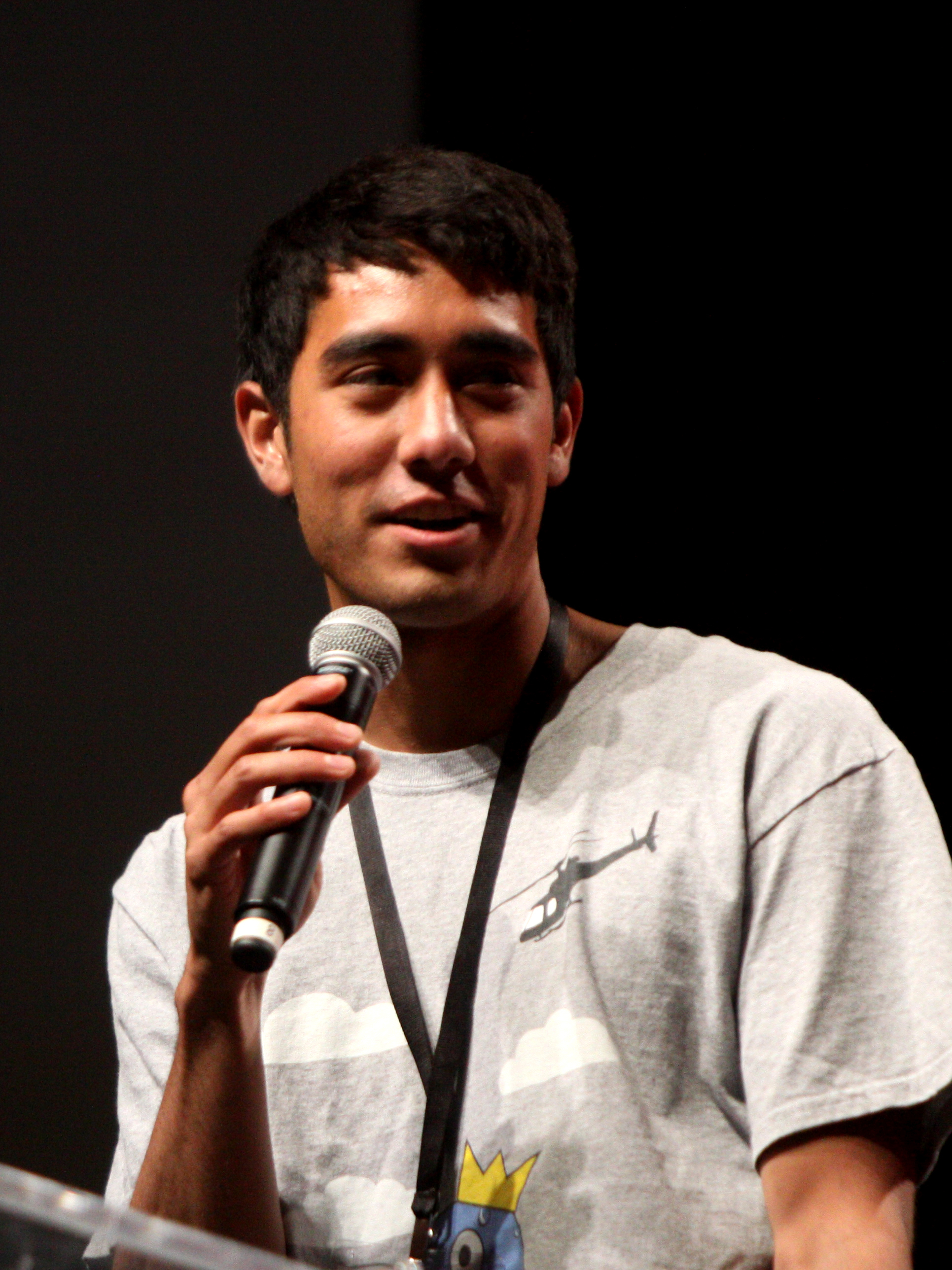 Zach King speaking at VidCon 2012 at the Anaheim Convention Center in Anaheim, California.